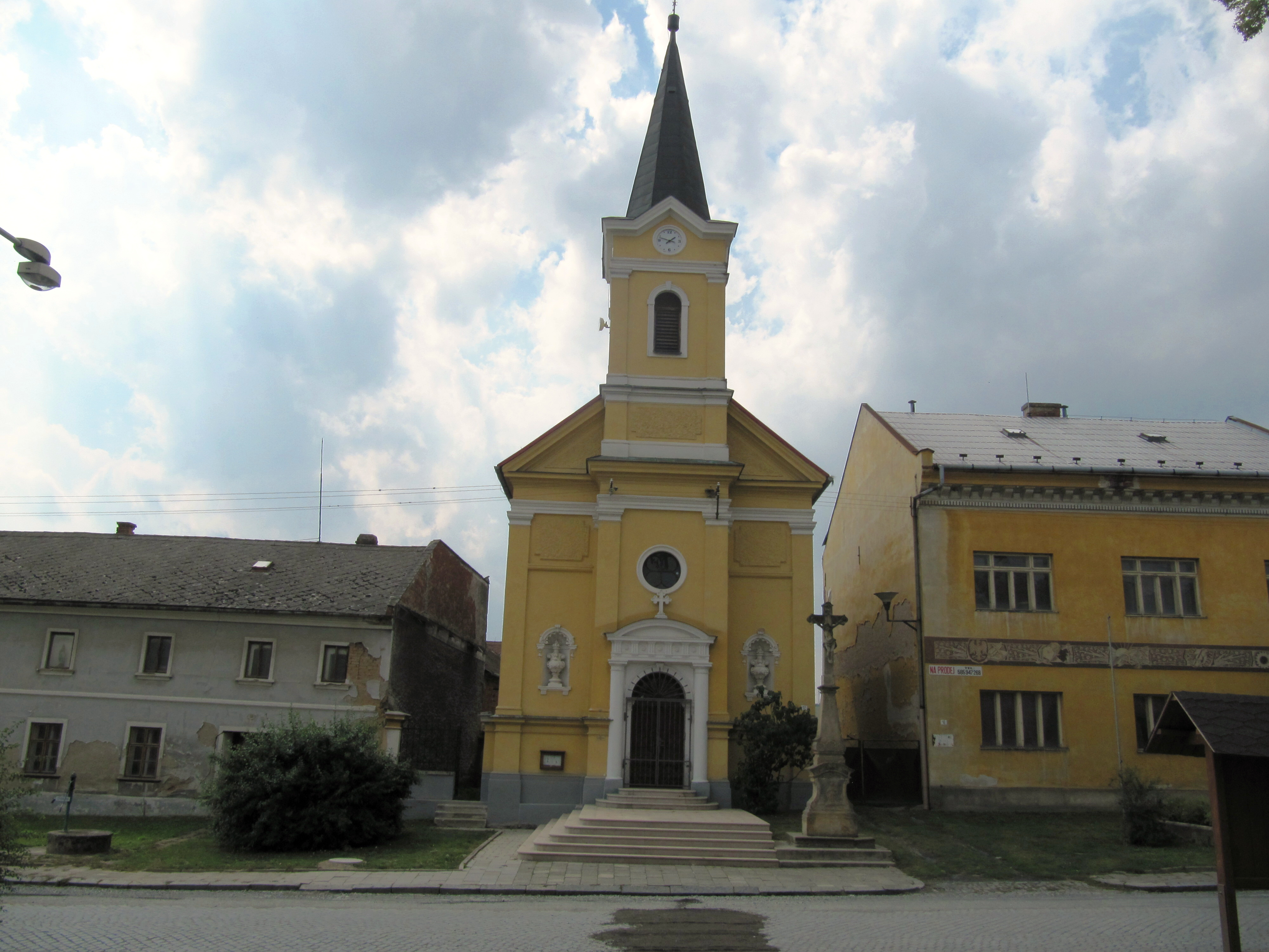 Senice na Hané in Olomouc District, Czech Republic, part Odrlice. Chapel of St. Cyril and Methodius.